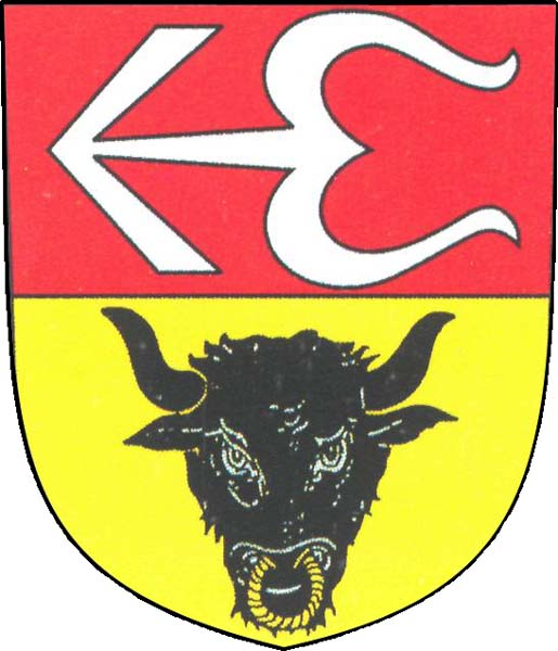 Municipal coat of arms of Plumlov town, Prostějov District, Czech Republic.